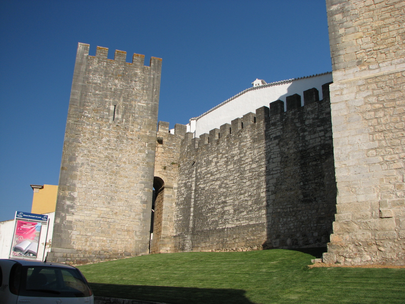 Loule Castle - The Algarve, Portugal